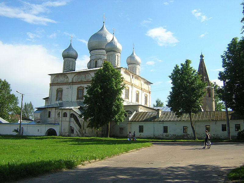 The cathedral of The Icon of Our Lady of the Sign. Veliky Novgorod, Russia